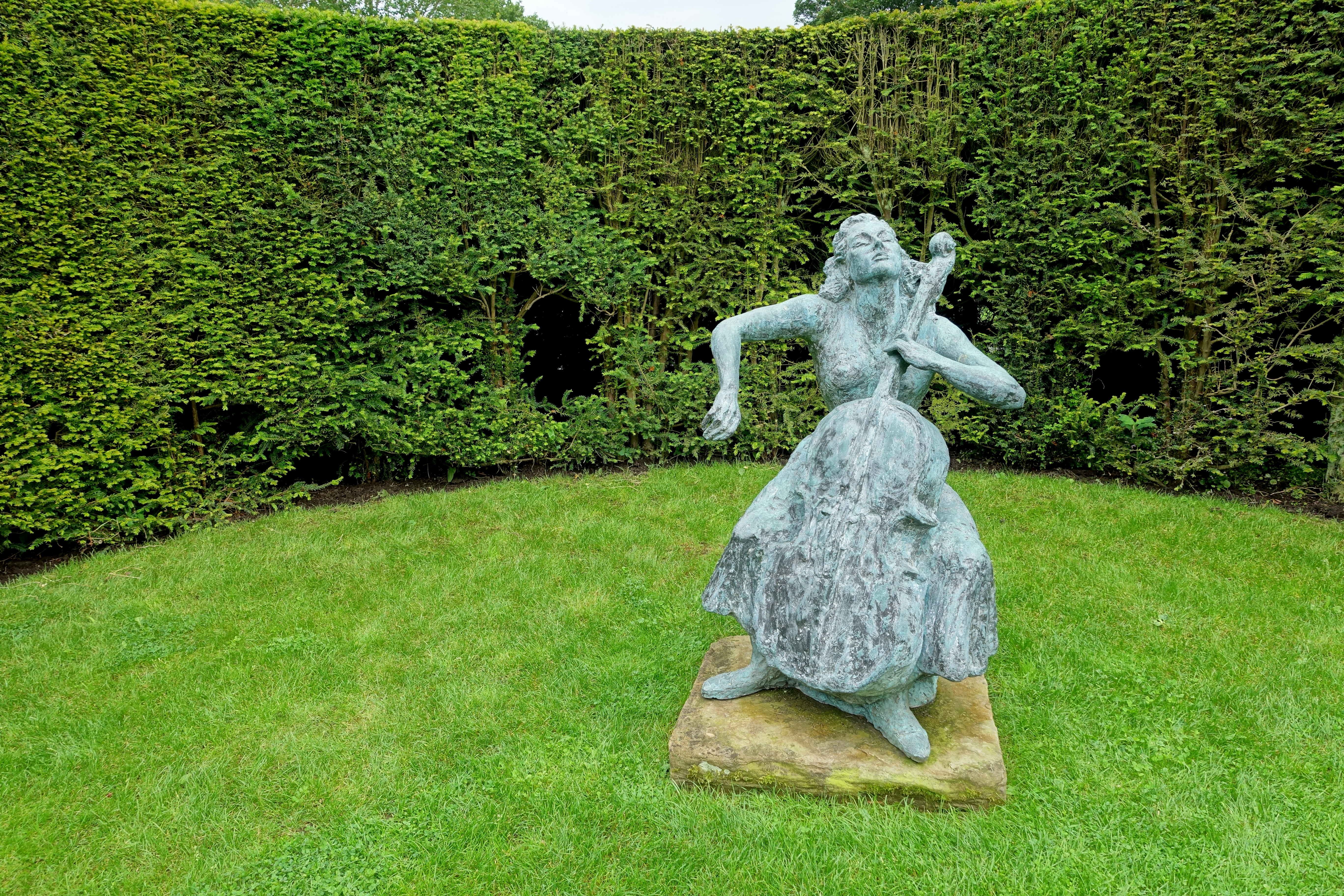 Sculpture at Renishaw Hall - Derbyshire, England.